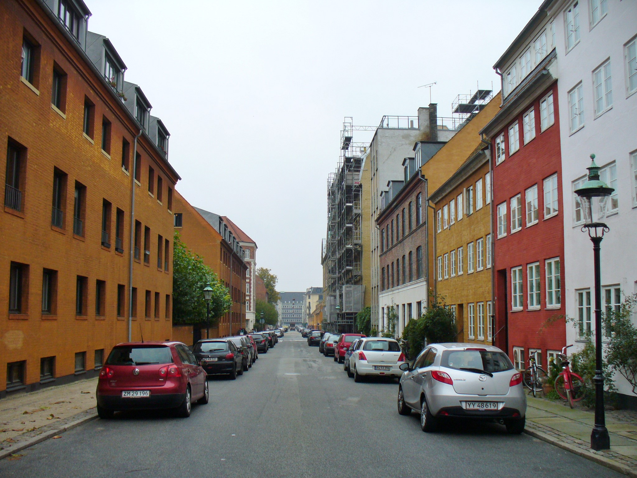 The street Olfert Fischers Gade in Indre By in Copenhagen.